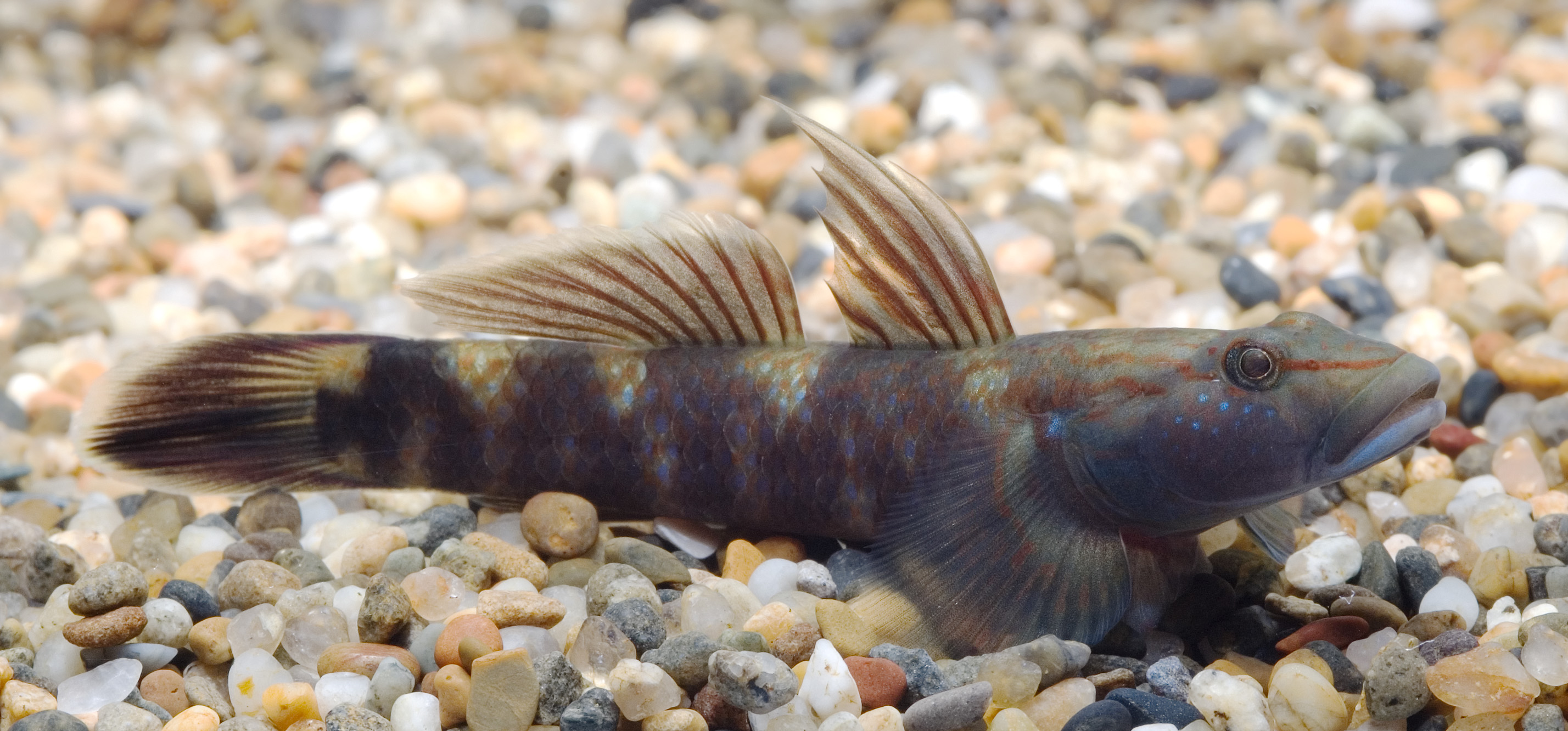 Ruliyoshinobori, Rhinogobius sp. CO